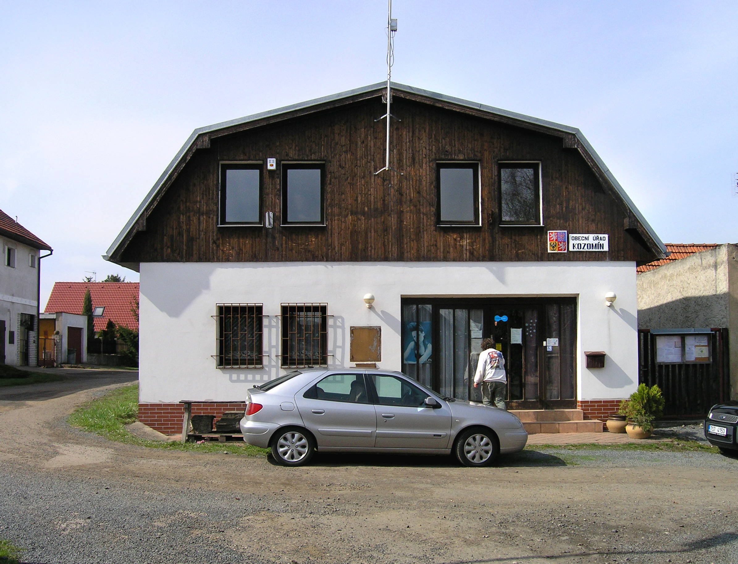 Municipal office in Kozomín village, Czech Republic